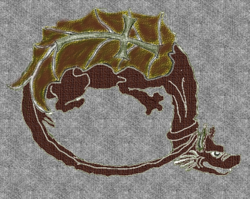 Order of the Dragon. From a textile insignia drawing.Possible the large embroidered gold dragon in relief from Munich